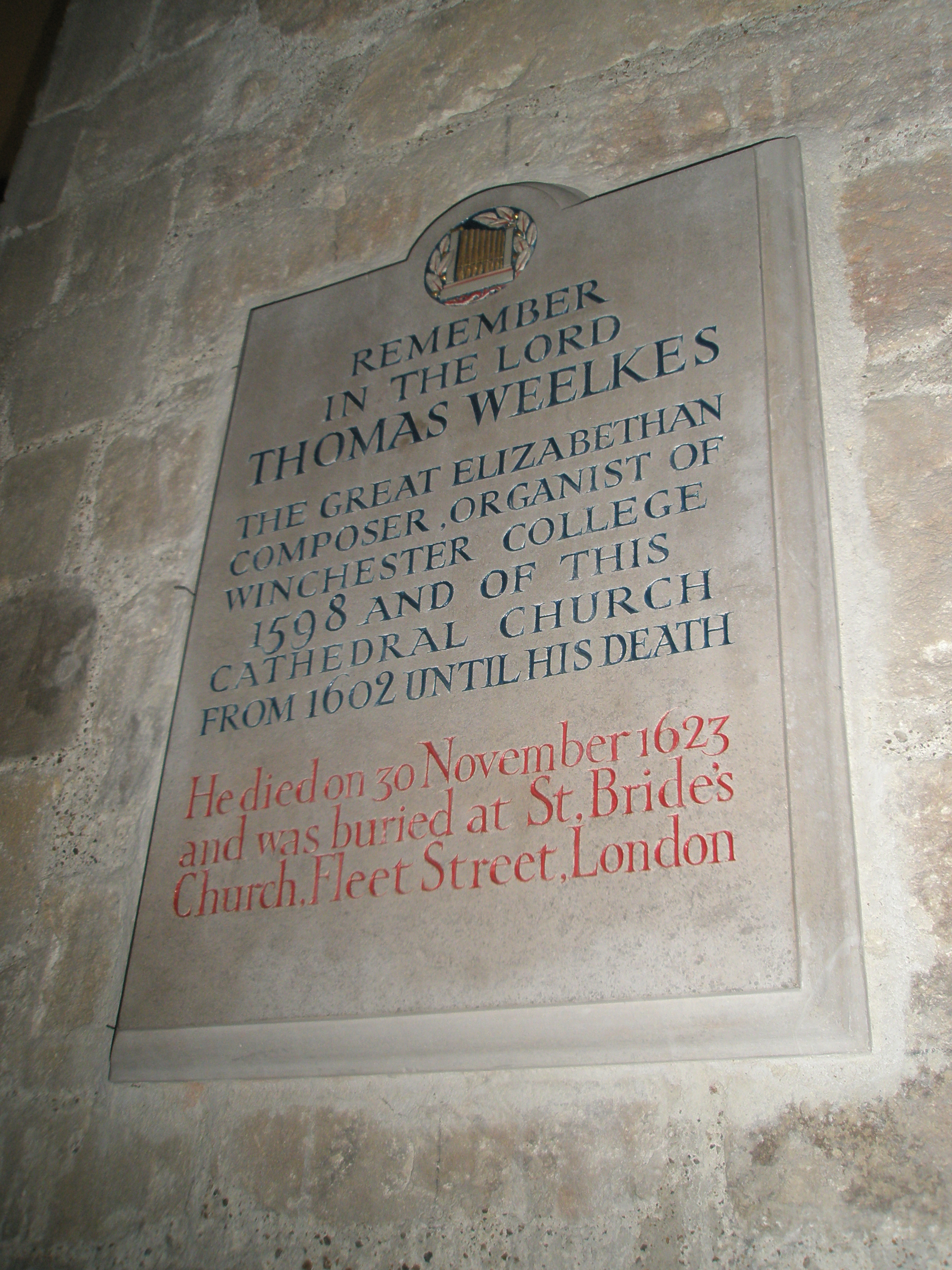 Memorial to Thomas Weelkes